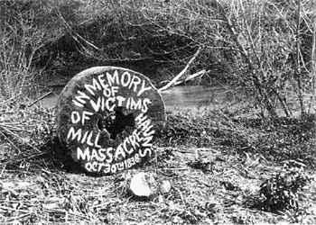 Early memorial to the Haun's Mill massacre, painted on the millstone.